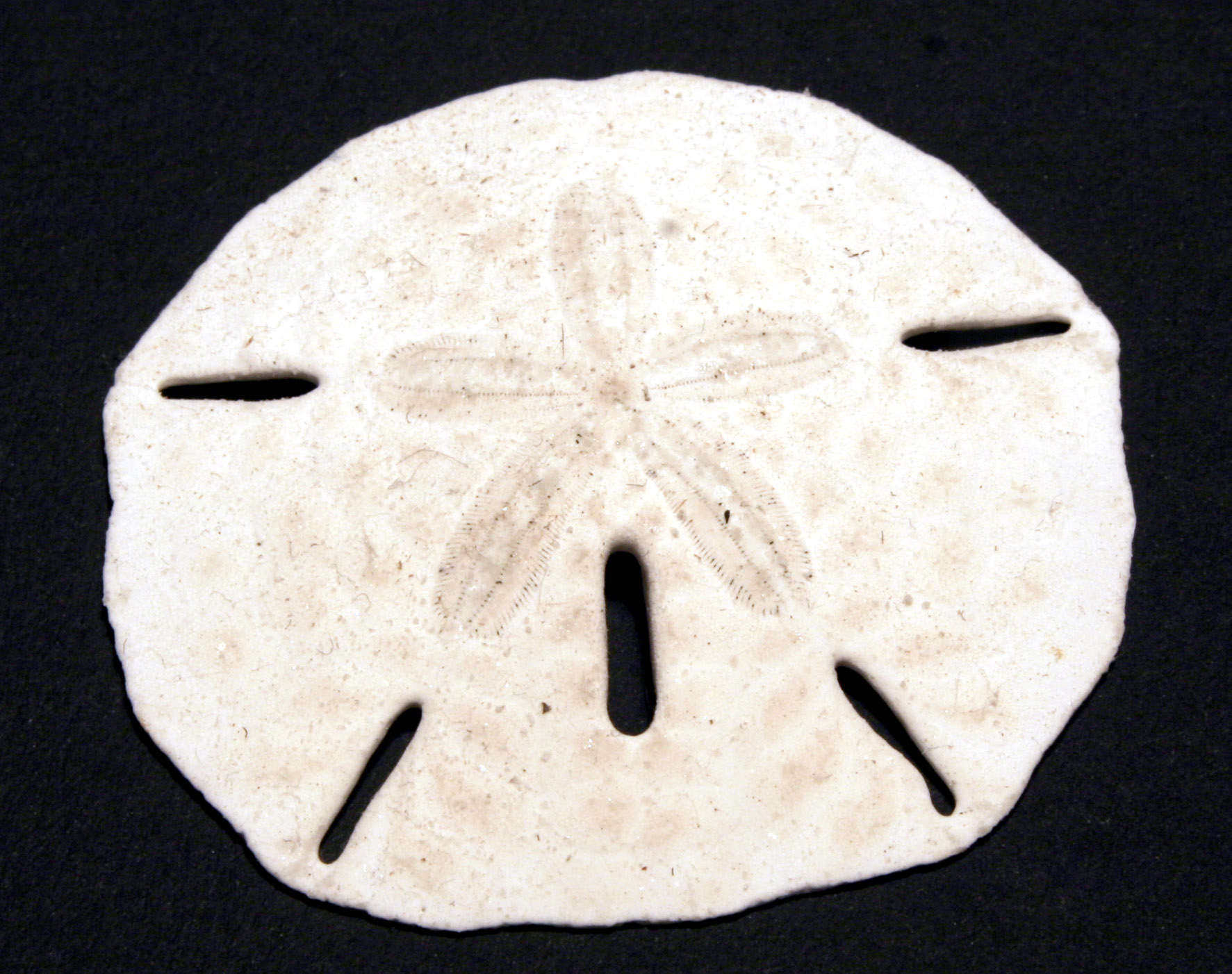 Mellita longifissa skeleton